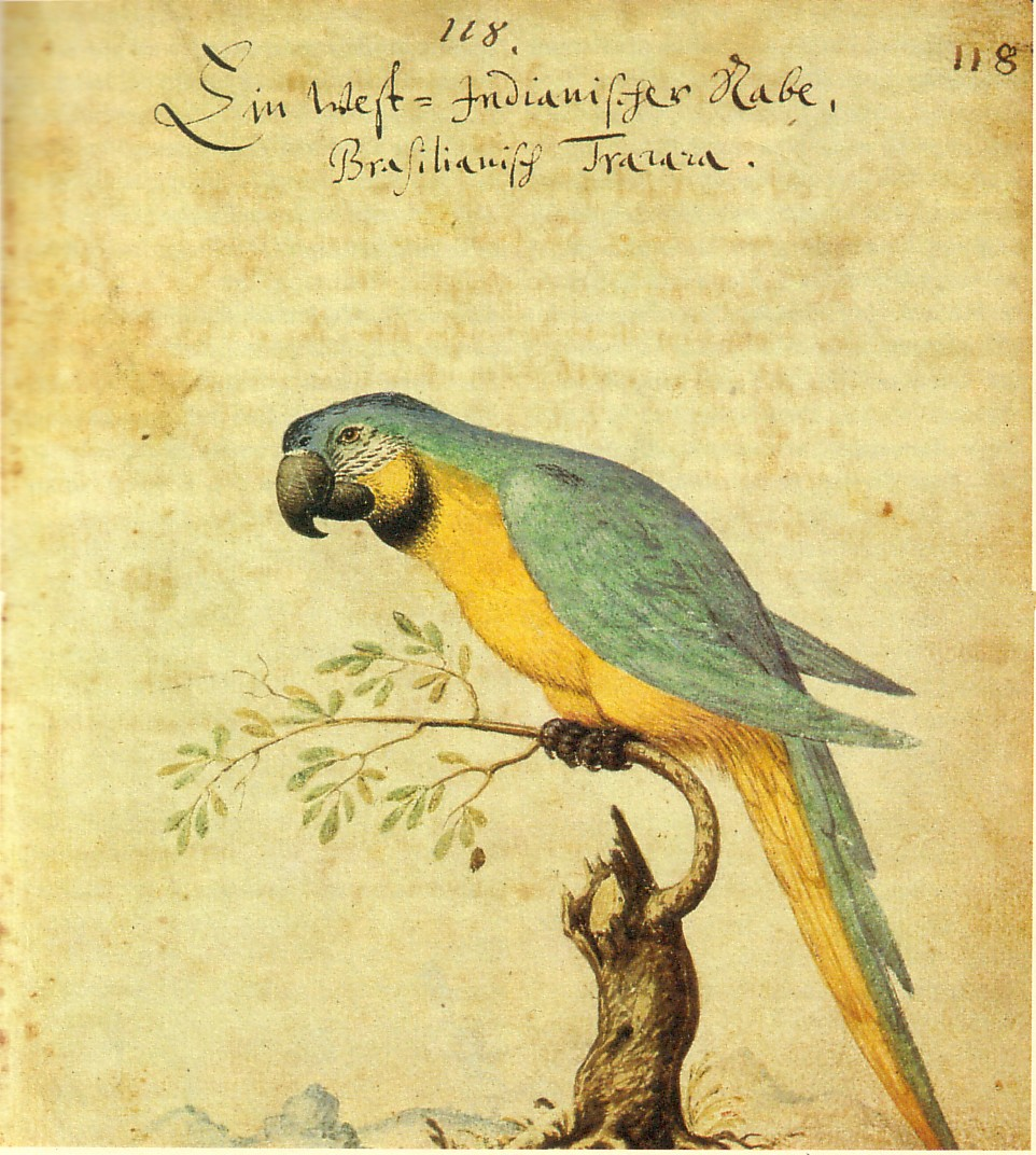 colored drawing by Caspar Schmalkalden (c.1618-c.1668). Inscription: A West Indian Raven Brasilian Trarara